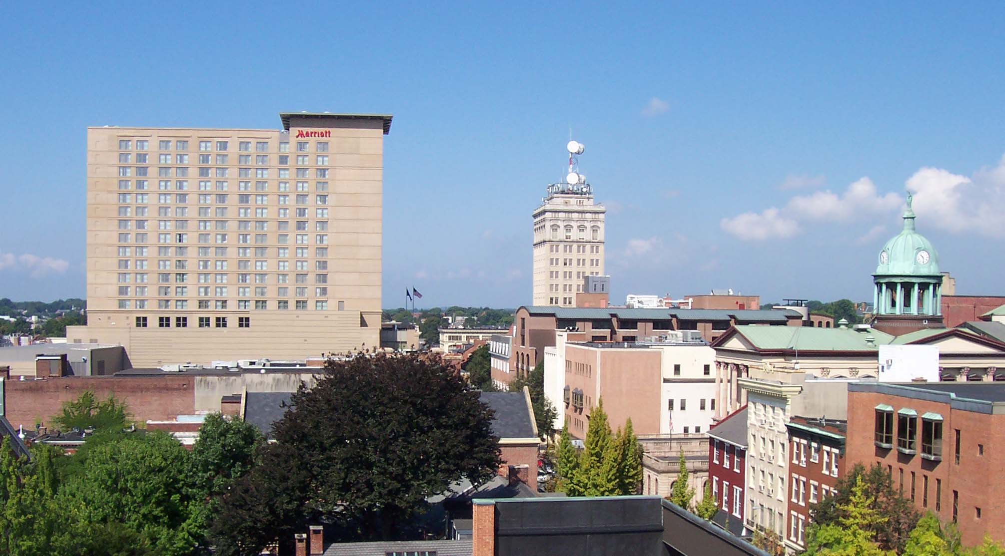 Downtown Lancaster, Pennsylvania